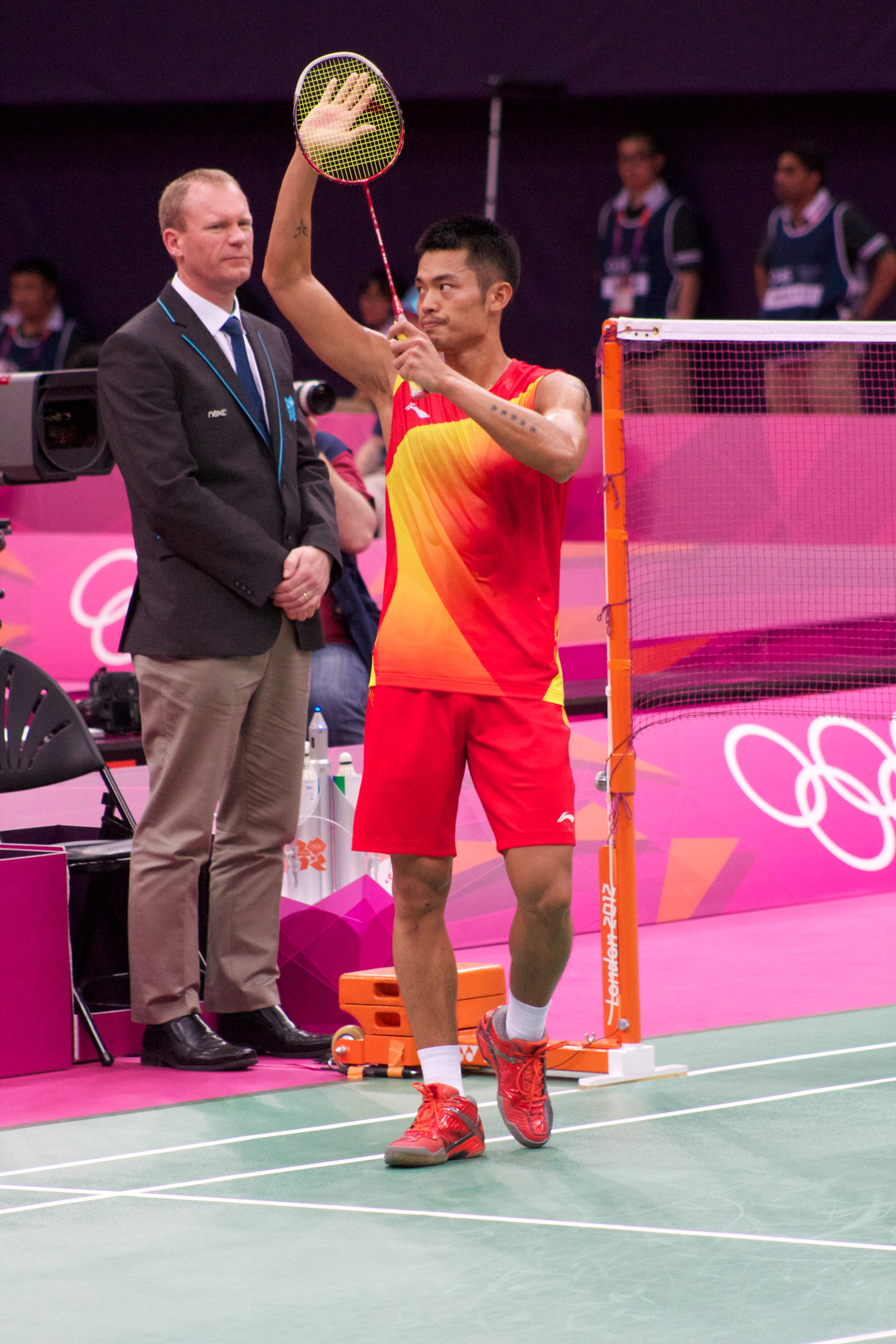 Badminton at the 2012 Summer Olympics